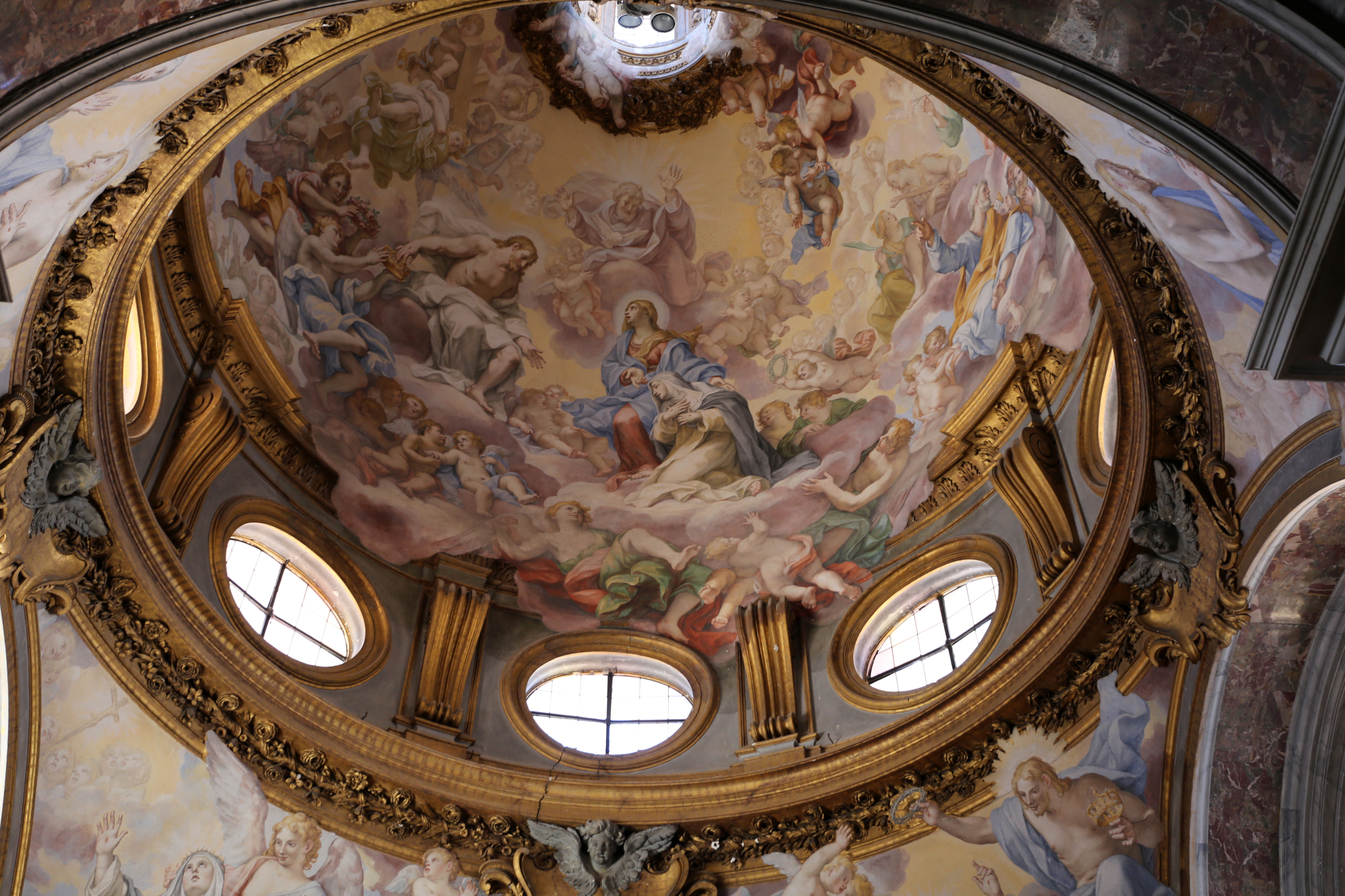 Santa Sabina (Rome) - Cappella di Santa Caterina